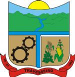 Coat of arms of city of Travesseiro, Rio Grande do Sul, Brazil